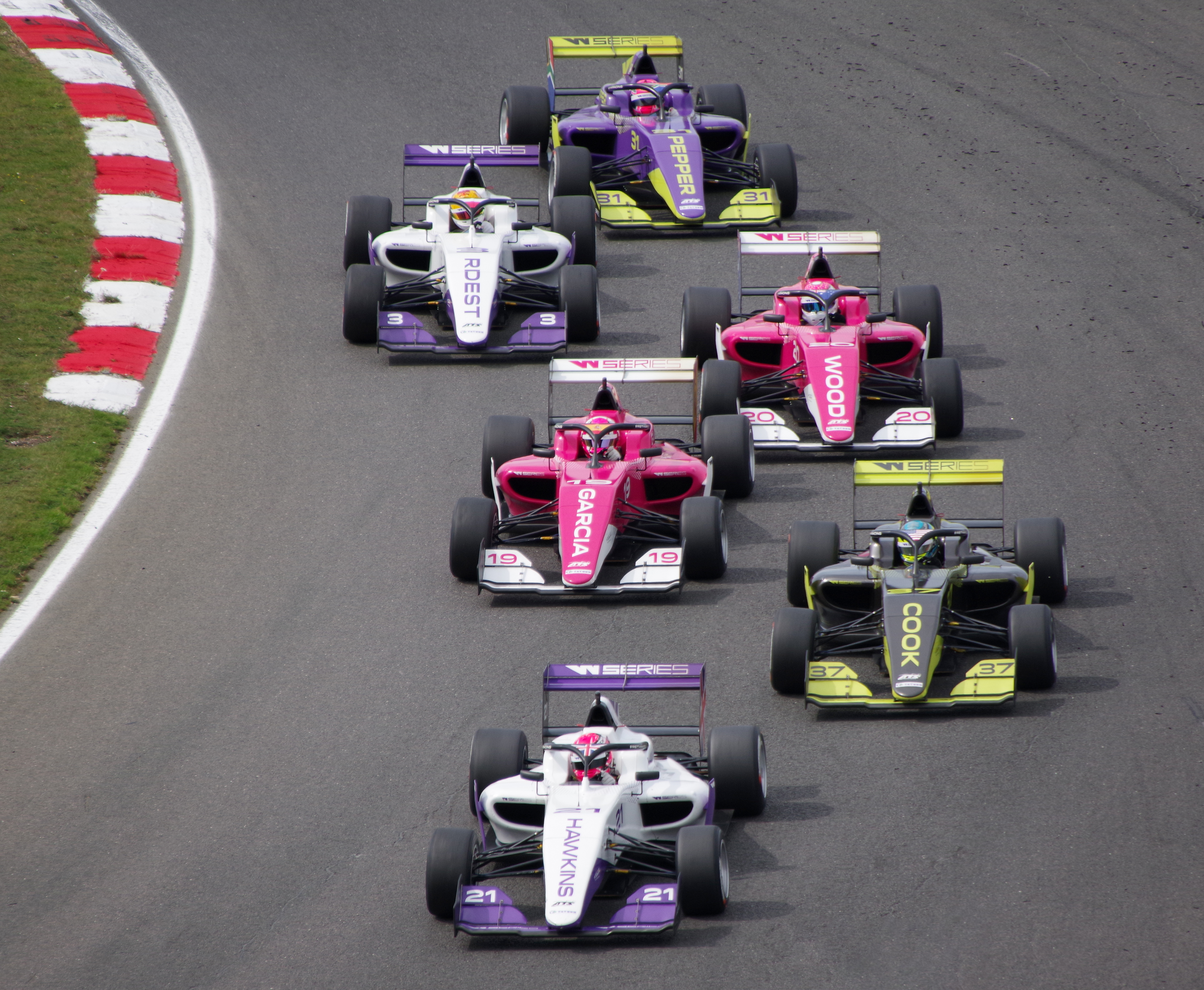 W Series racing at Brands Hatch - a whole slew of cars head through Paddock Hill Bend.